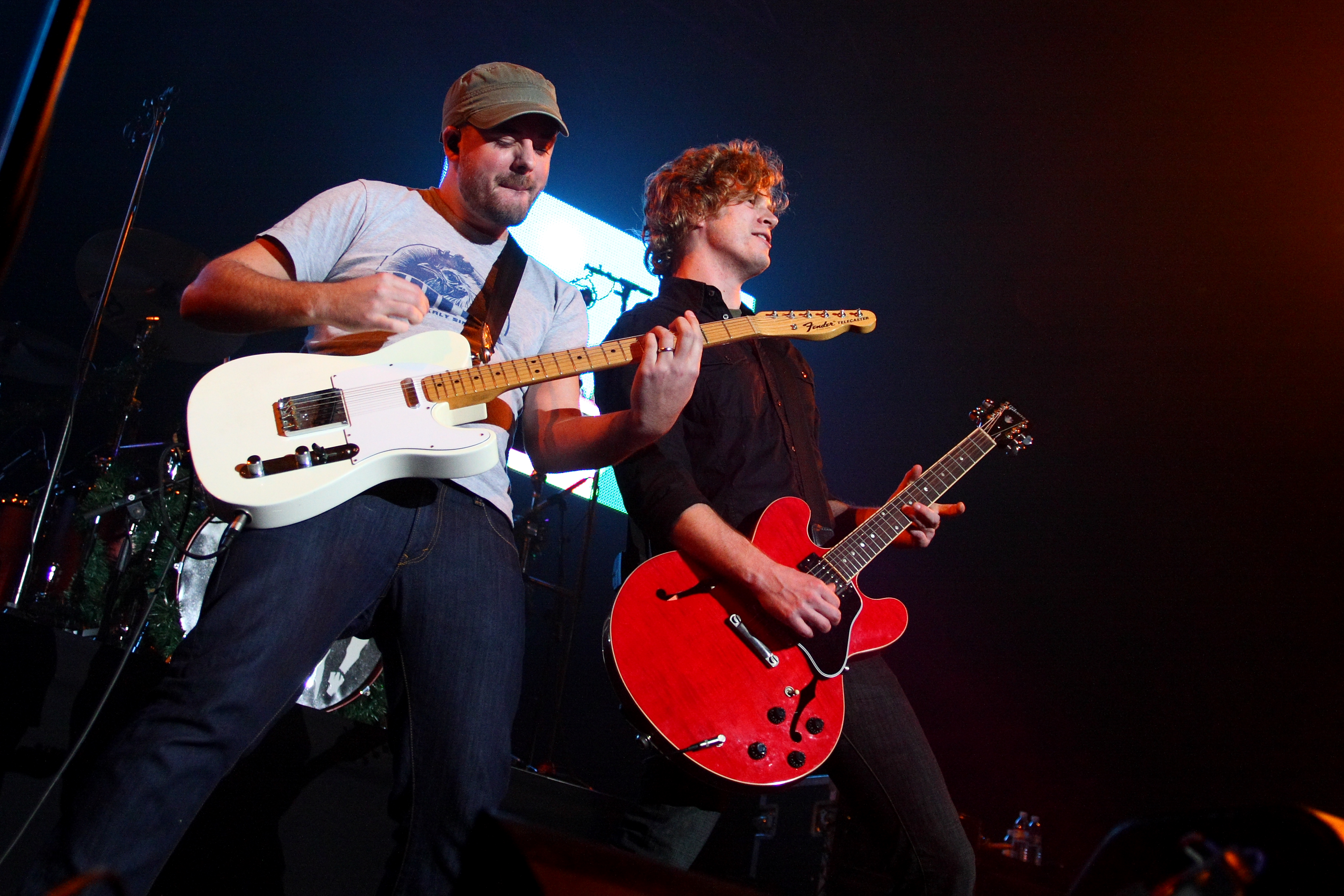 Matthew Hoopes and Matthew Thiessen performing with Relient K in 2008.